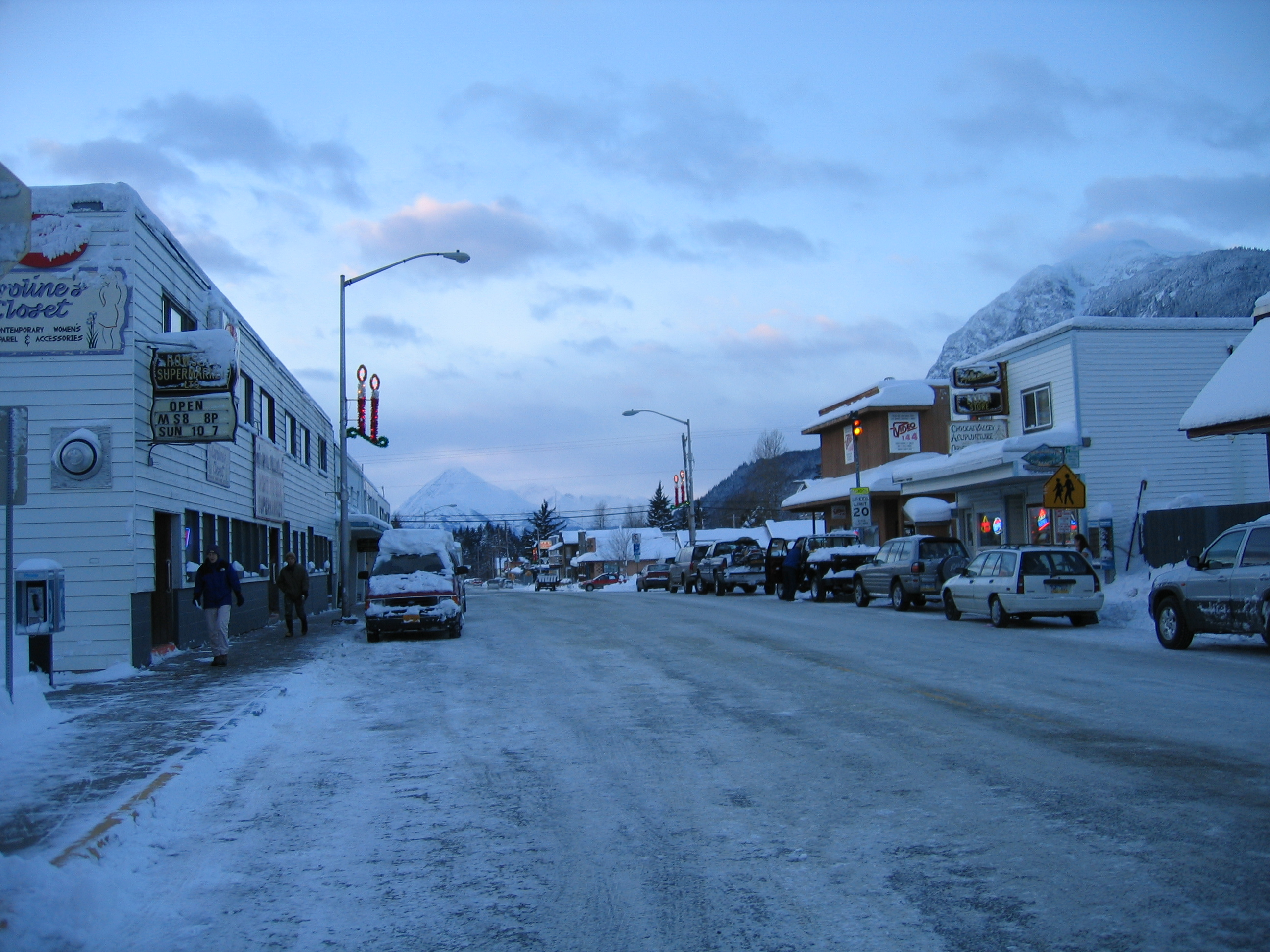 Main Street with snow, Haines, Alaska Photo by Micah Bochart